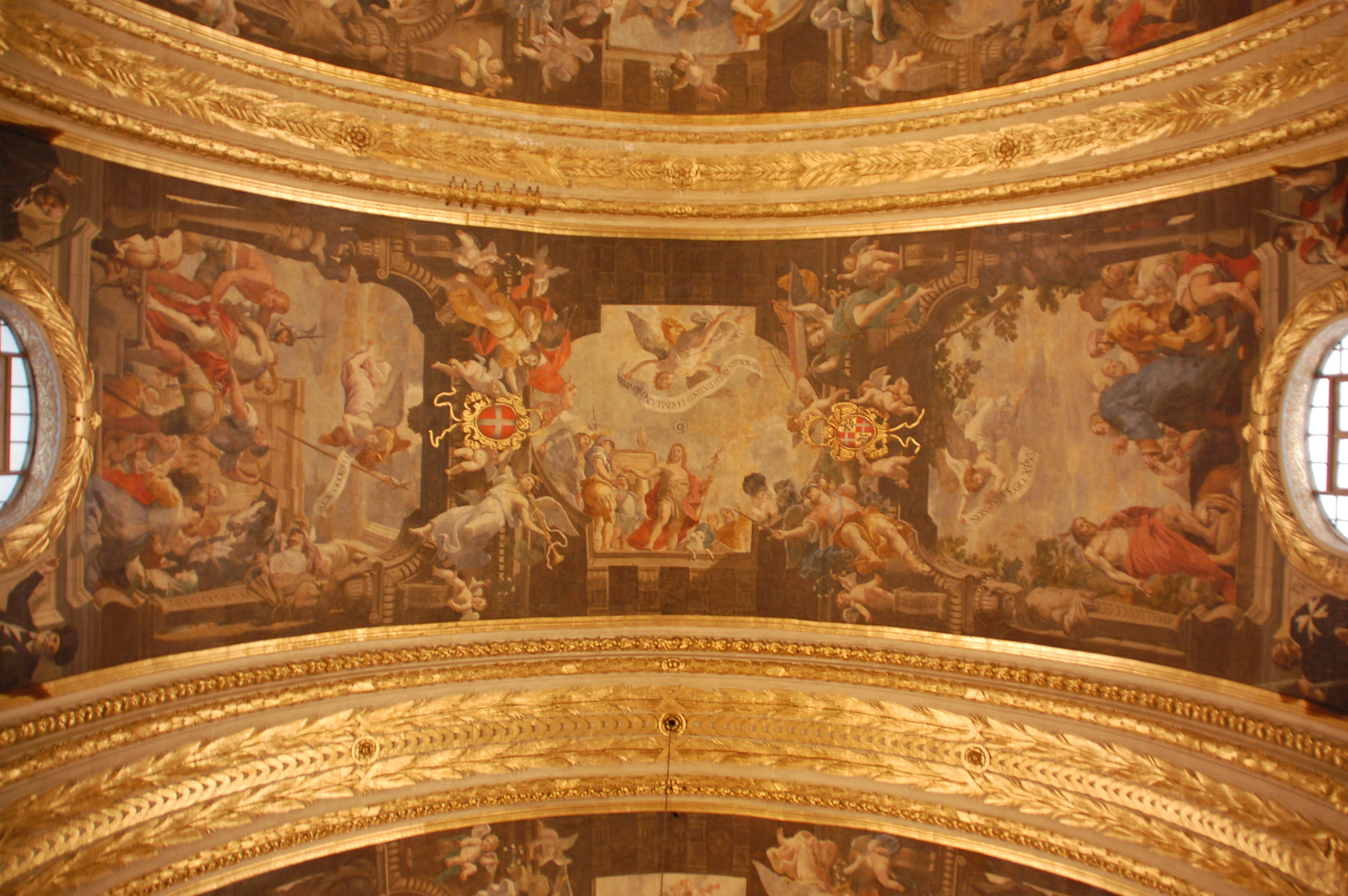 Detail from St John's Co-Cathedral, Valletta, Malta